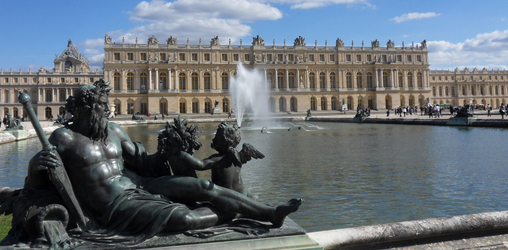 The sculpture, Le Seine, designed by Girardon, modeled by Le Hongre, and cast by the Marsy brothers between 1685 and 1694, was one of a set of 16 allegorical figures placed around the Parterre d'Eau (Water Terrace) on the west side of the Palace of Versailles.